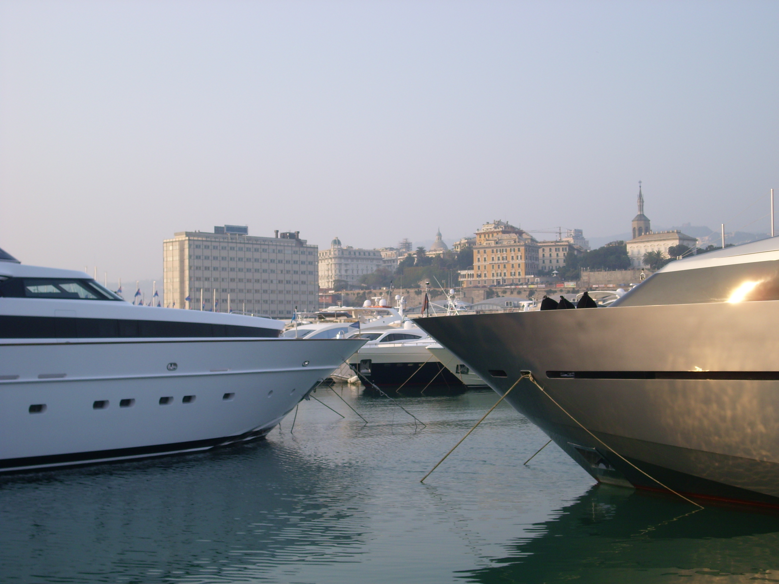 47 international boat exibition, Genova, Italy